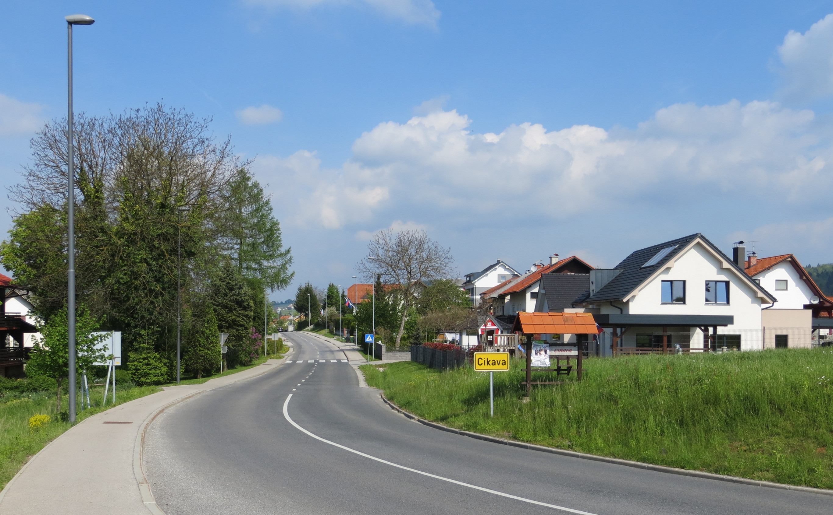 Cikava, Municipality of Grosuplje, Slovenia